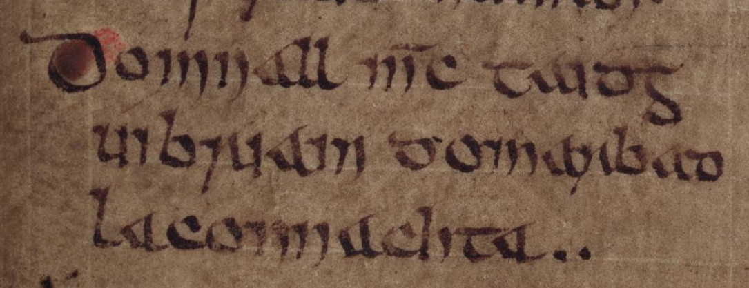 An excerpt from folio 34r of Bodleian Library MS Rawlinson B 503 (the Annals of Inisfallen). The excerpt reads in Gaelic "Domnall mc. Taidg Uí Briain do marbad la Connachta". The man referred to is Domnall mac Taidc, King of the Isles (died 1115).